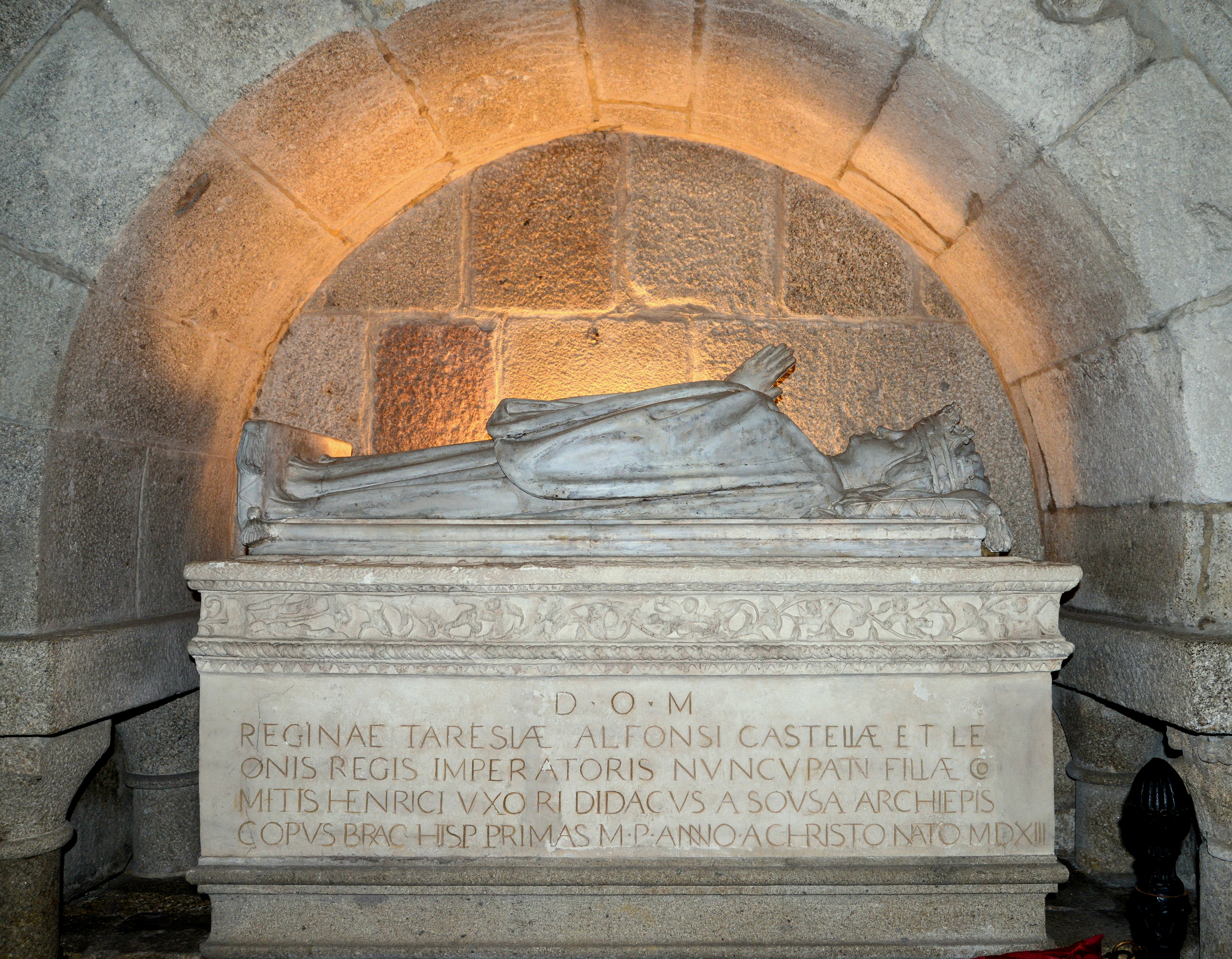 Tomb of Teresa of León (1080-1130), countess and queen of Portugal in Braga Cathedral, Portugal.